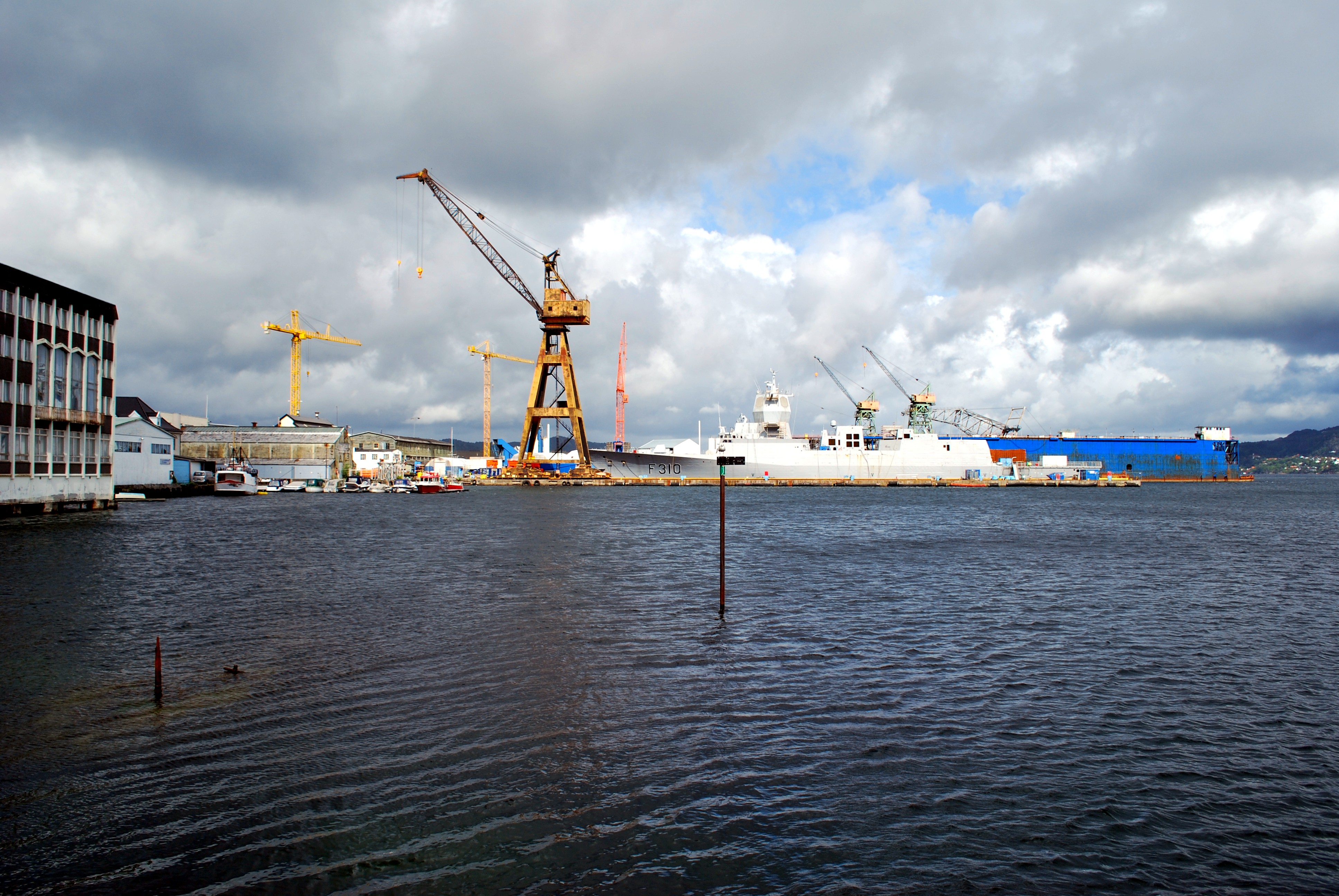 Shipyard Bergen Group Laksevåg, formerly Laksevåg Verft, at Lakesvåg in Bergen.